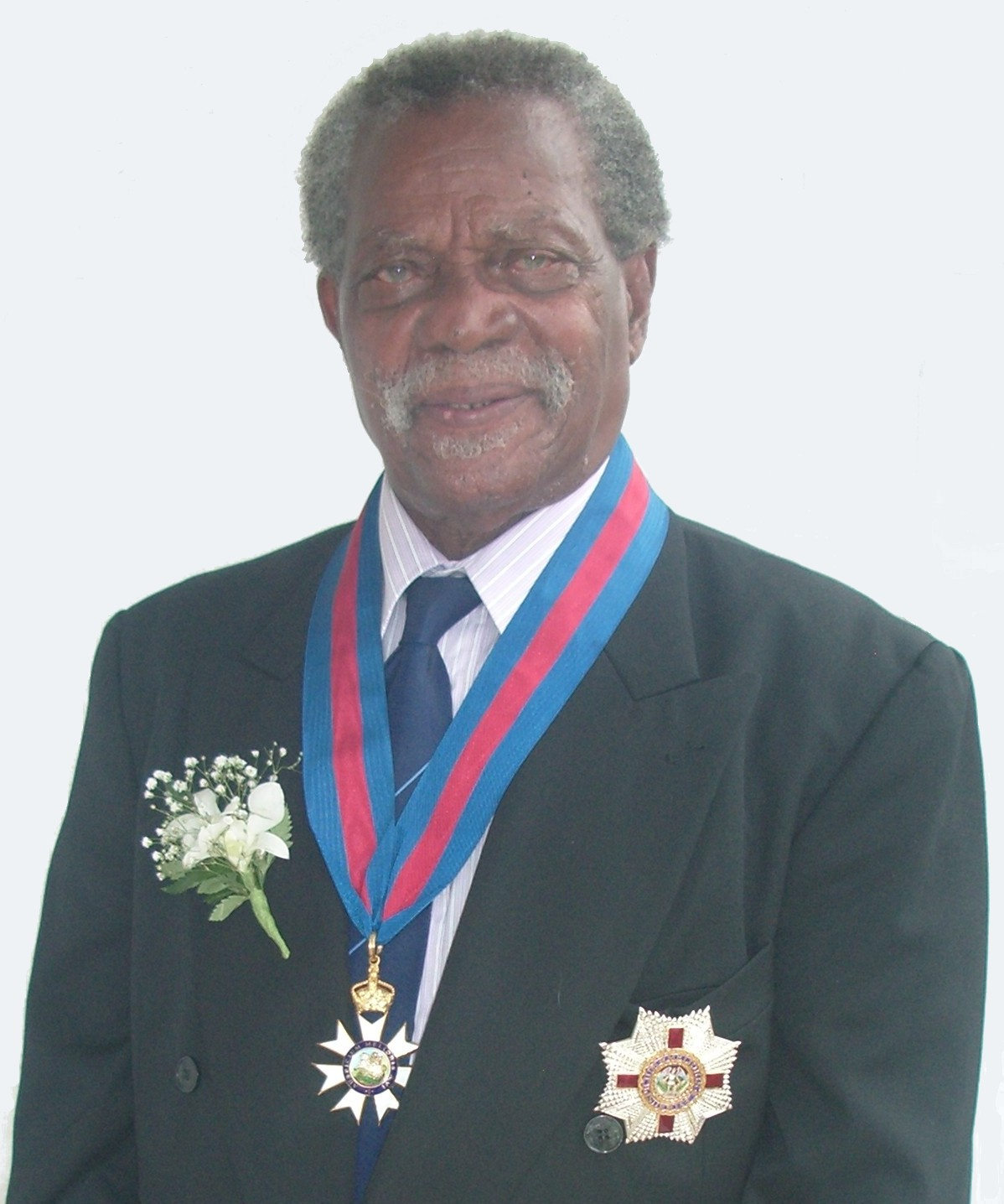 Dunstan St. Omer after being knighted in April 2010 in St. Lucia by the Governor General on the advice of Her Majesty the Queen. Sir Dunstan St. Omer was invested with the Insignia of a Knight Commander of the Order of St Michael and St George (KCMG).